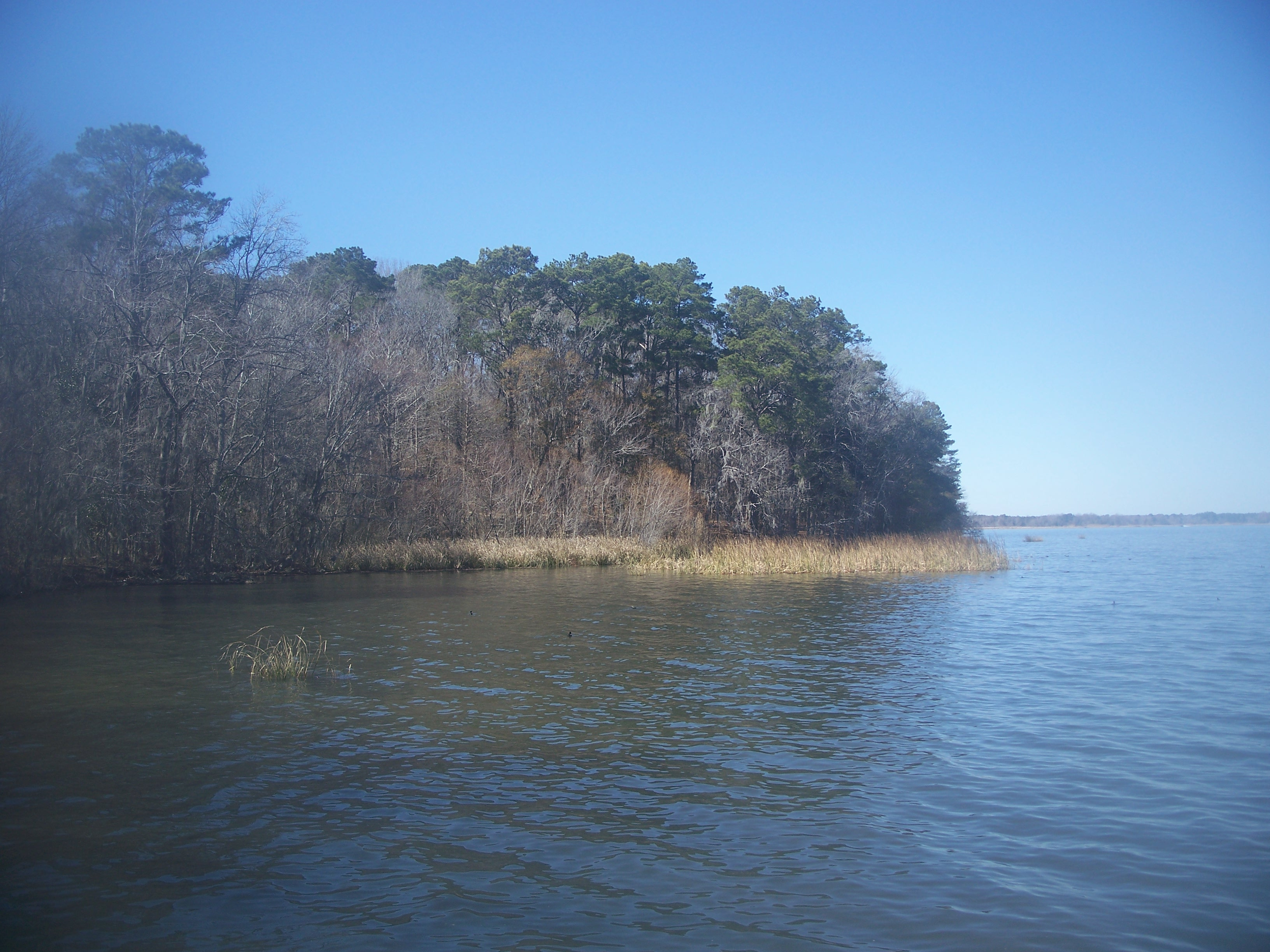 Three Rivers State Park: Lake Seminole